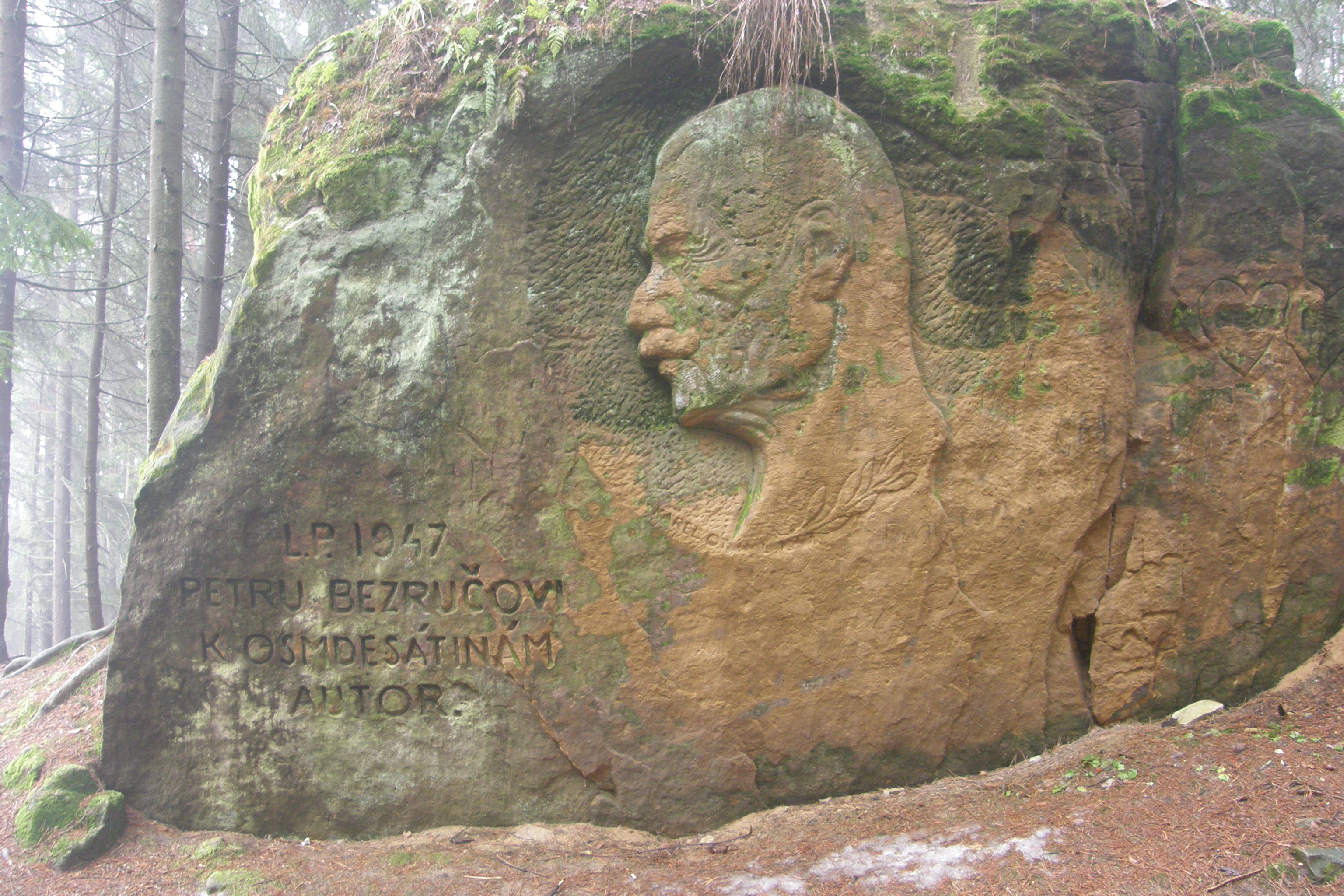 Velké Opatovice, Blansko District, Czechia.